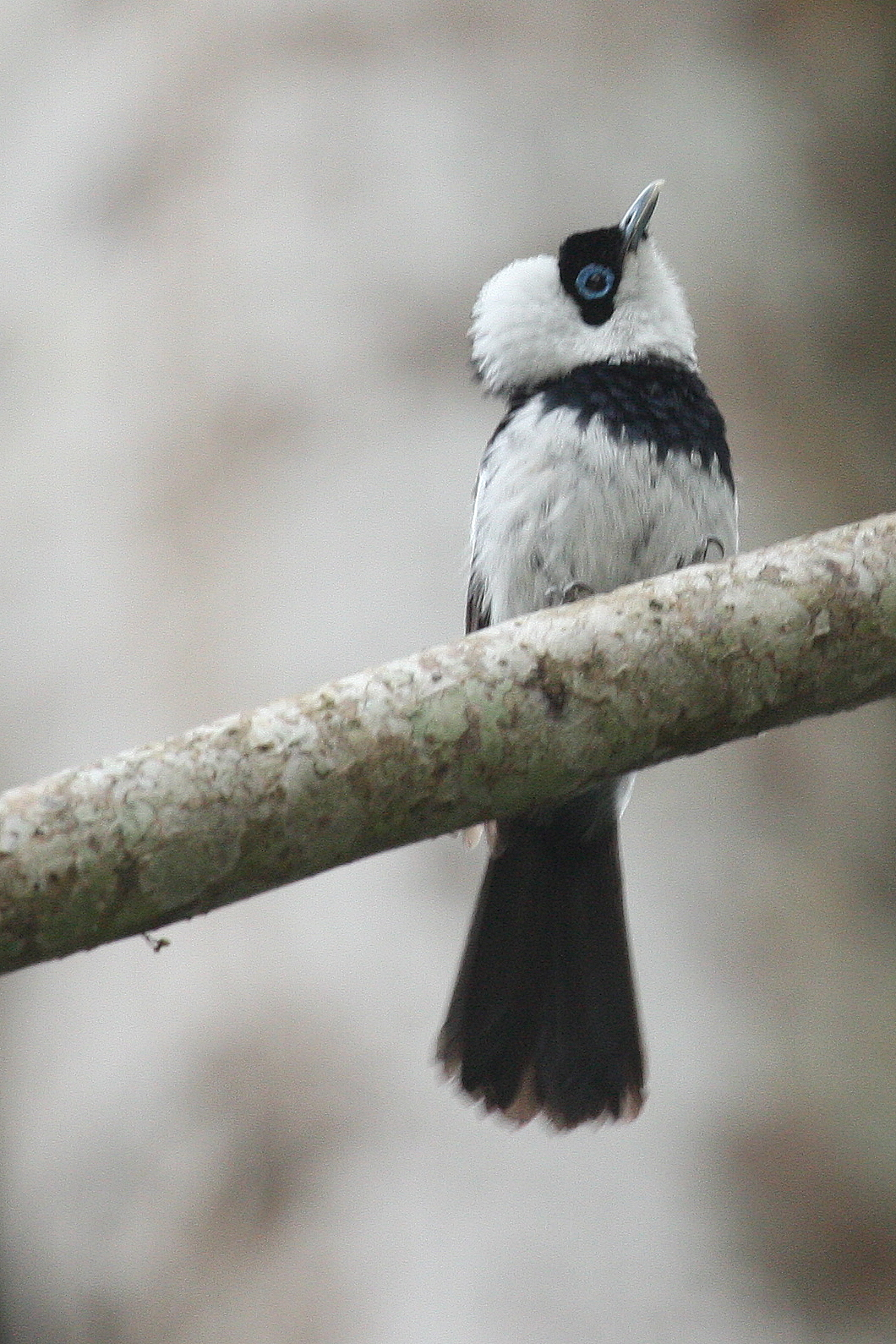 An adult Pied Monarch Arses kaupi at Curtain Fig Tree, Queensland, Australia.